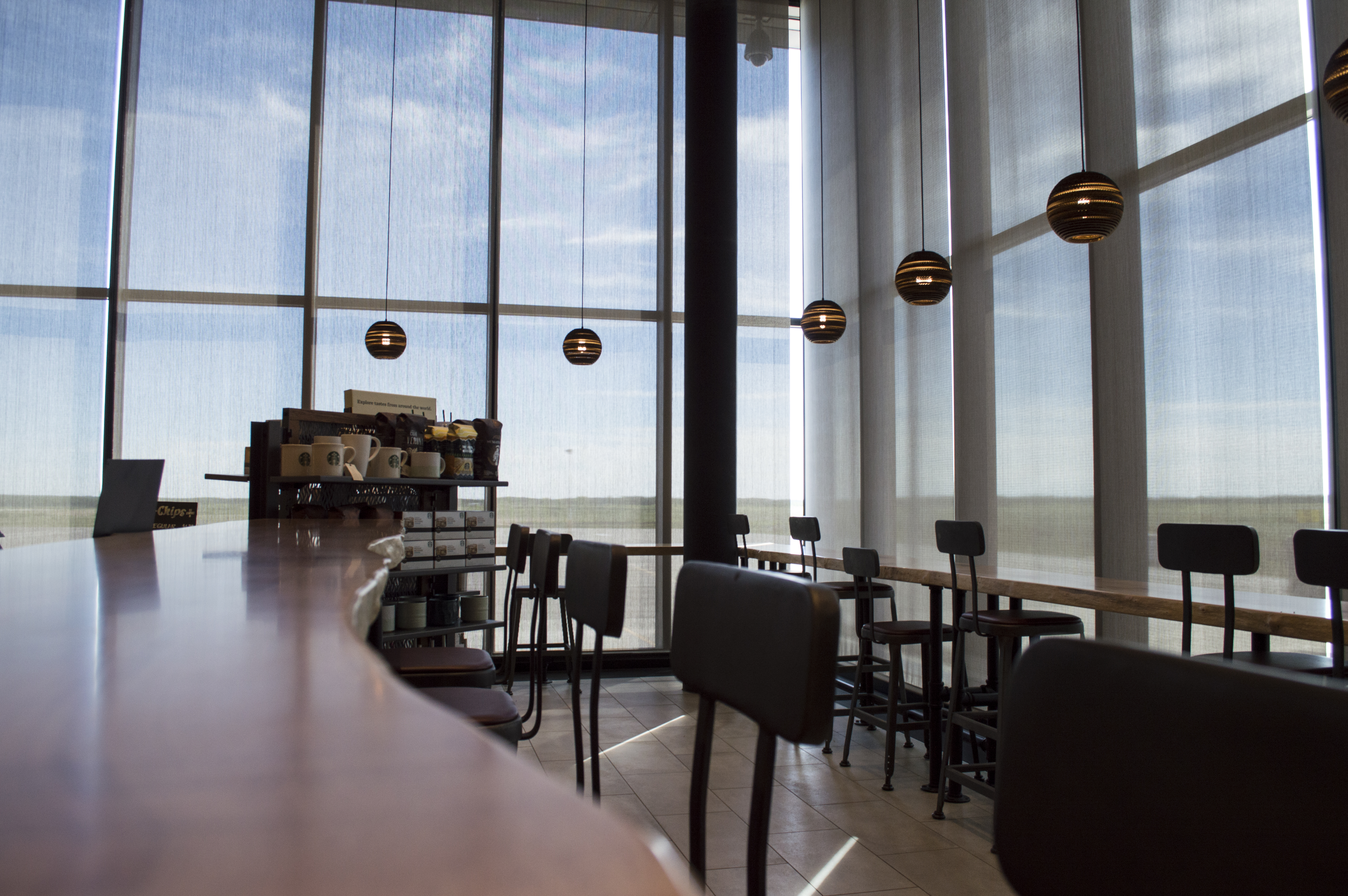 Passenger seating at Starbucks,one of the 16 concessions available at Fort McMurray International Airport.